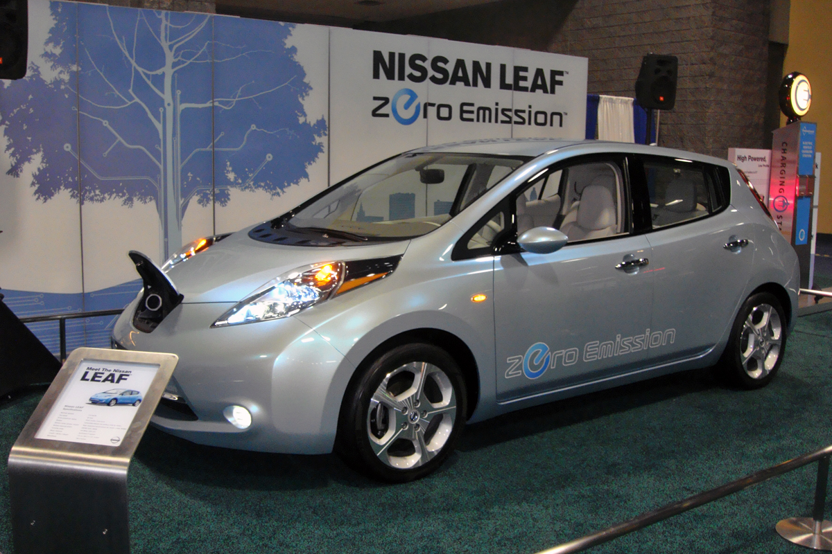 Nissan Leaf exhibited at the 2010 Washington Auto Show (D.C.)